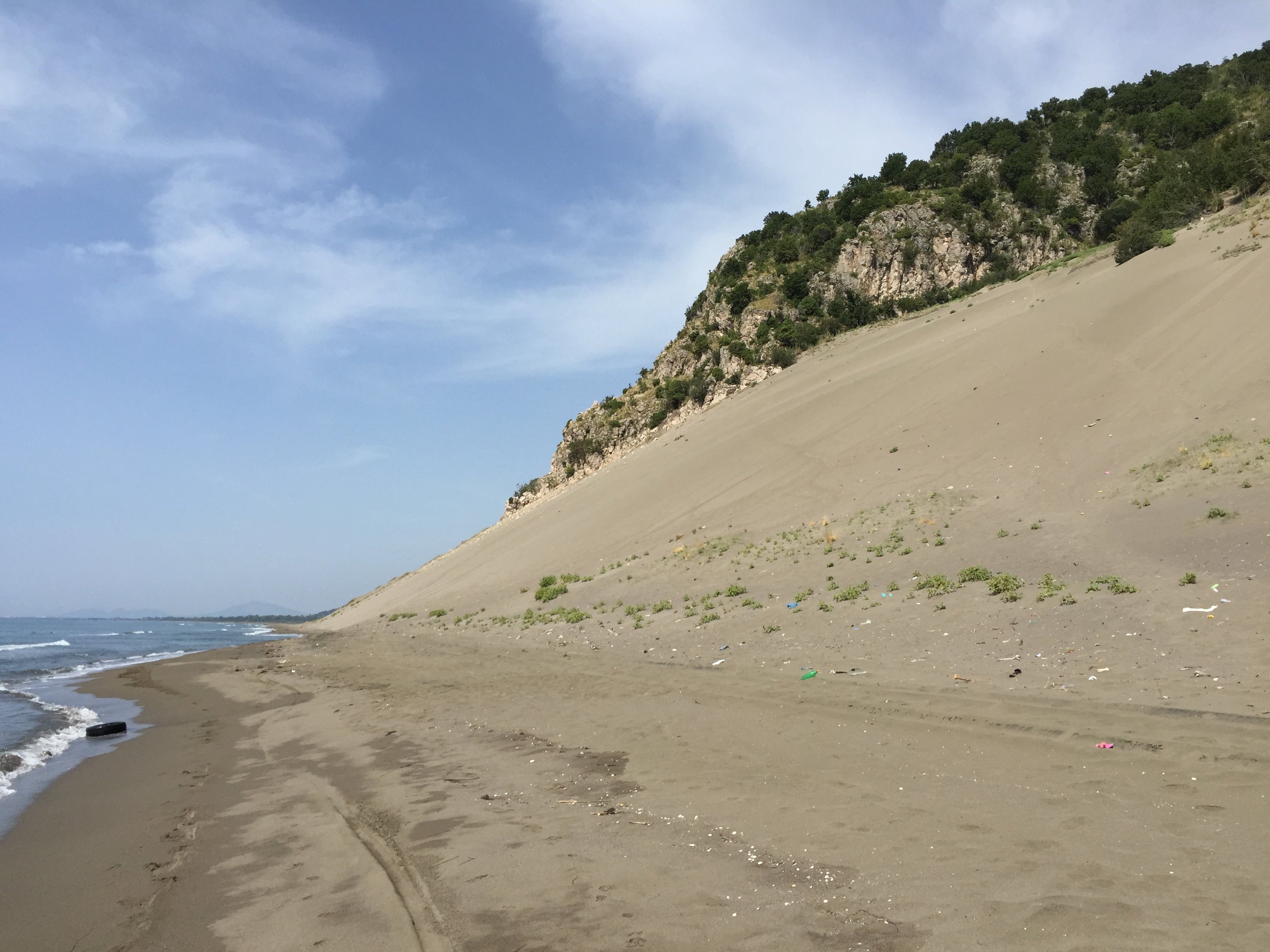 Sand dune Rana e hedhun in Shëndgjin, Albania